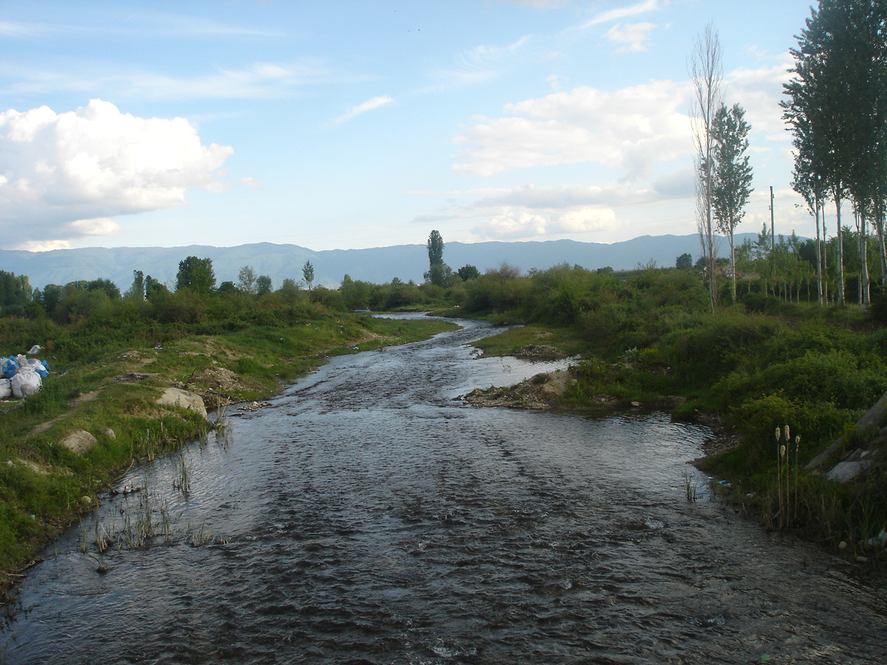 Turija river near the village of Dobrošinci, in Vasilevo Municipality, near Strumica, Macedonia